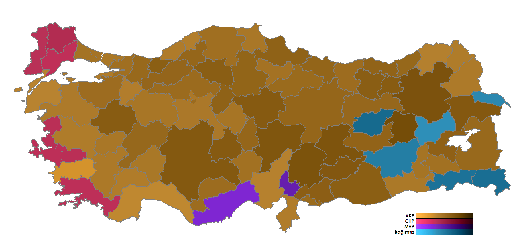 2007 Turkish election map showing the leading party by il.